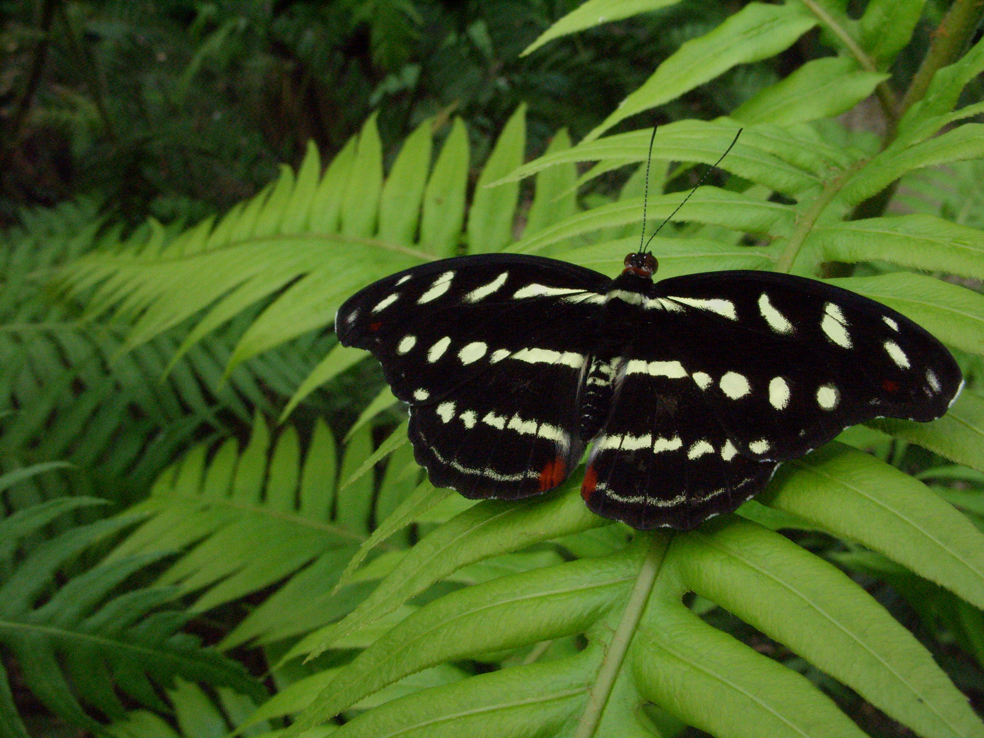 Source: Female Orange-Banded Shoemaker (Catonephele orites)